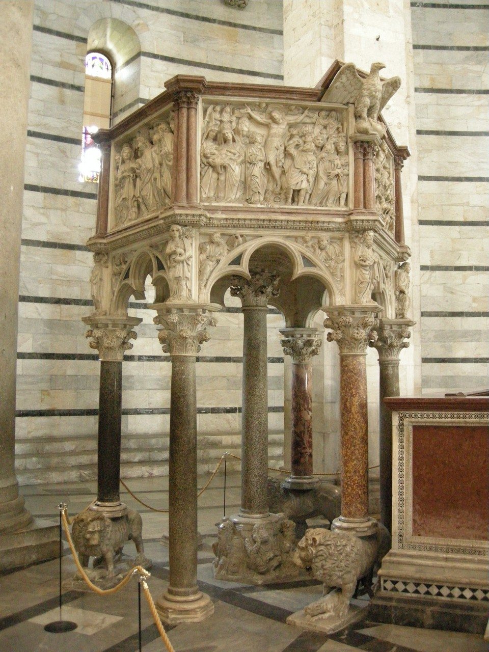 Pulpito in Battistero, nicely decorated. I shooted without flash. The colours are the original I admired.